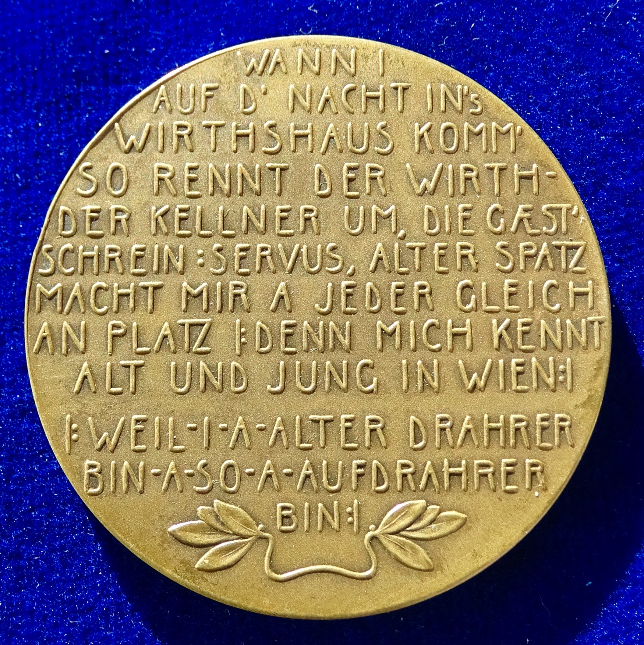 Art Nouveau Medal by Hans Schaefer of Edmund Guschelbauer, Vienna, Austria. Bronze medallion d. = 44 mm. Guschelbauer, Edmund, Viennese country singer, 1839 Wien - 1912 Vienna, Austria. Portrait r. l. of 1 line: "1863 - 1903", around: "ZUR ERINNERUNG AN EDMUND GUSCHELBAUER'S 40 JÄHRIGES SÄNGER JUBILAUM"/ 12 lines: "WANN I AUF D' NACHT IN'S WIRTSHAUS KOMM' SO RENNT DER WIRT- DER KELLNER UM, DIE GAEST' SCHREIN: SERVUS, ALTER SPATZ MACHT MIR A JEDER GLEICH AN PLATZ I: DENN MICH KENNT ALT UND JUNG IN WIEN: I I: WEIL- I- A- ALTER DRAHRER BIN- A- SO- A- AUFDRAHRER BIN: I". Wurzbach 3436; Forrer V, p. 350. Artist: Hans Schaefer, Sculptor in Vienna, 1875 Sternberg (Moravia) - 1933 Chicago, US. Condition: UNCIRCULATED.